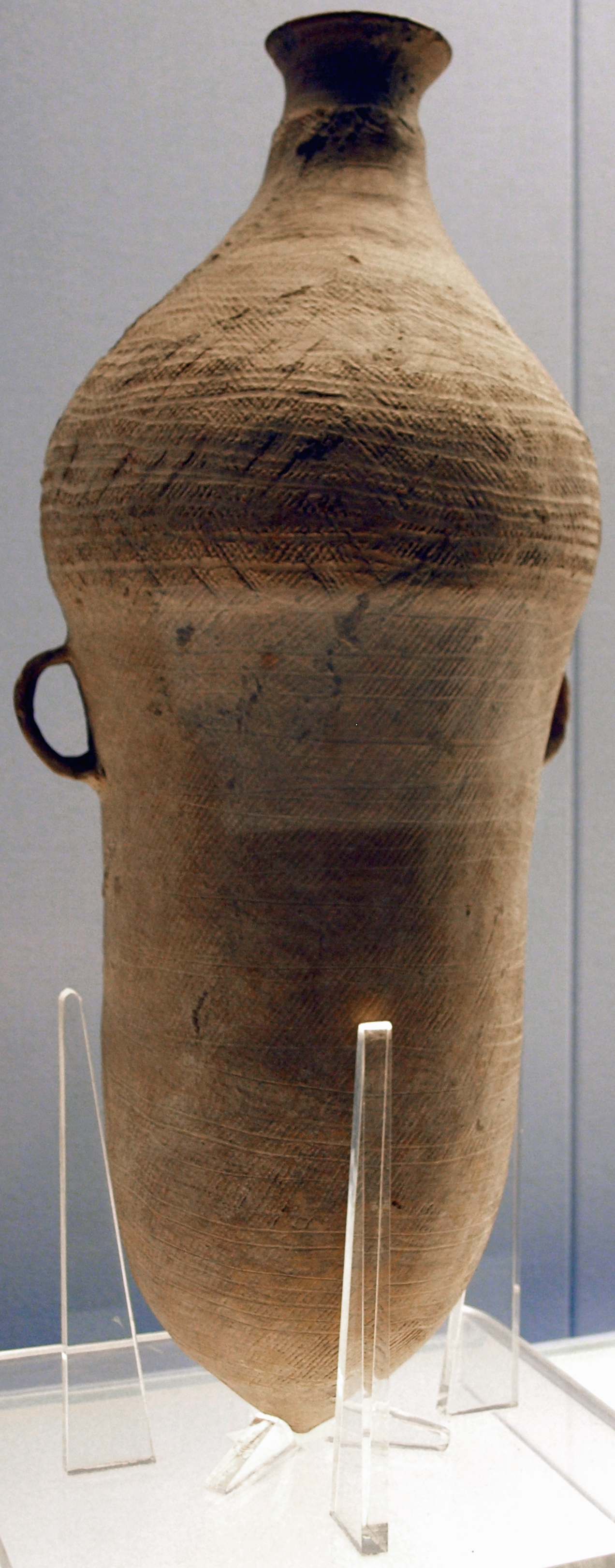 A red pottery vase with a pointed bottom of the Xiwangoun type from the Yangshao culture. c3000-2700 B.C. On display at the Shanghai Museum. (The pointed bottom yields stability in its "seating hole", versus a non-pointed bottom.)